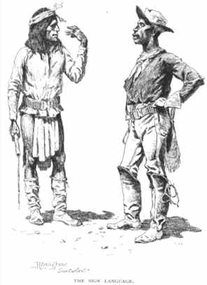 "The Sign Language" was drawn in April of 1889 by Frederic Remington while accompanying a United States Army scouting expedition against renegade Apaches in Arizona. The drawing shows an Apache scout and a 10th Cavalry Buffalo soldier.